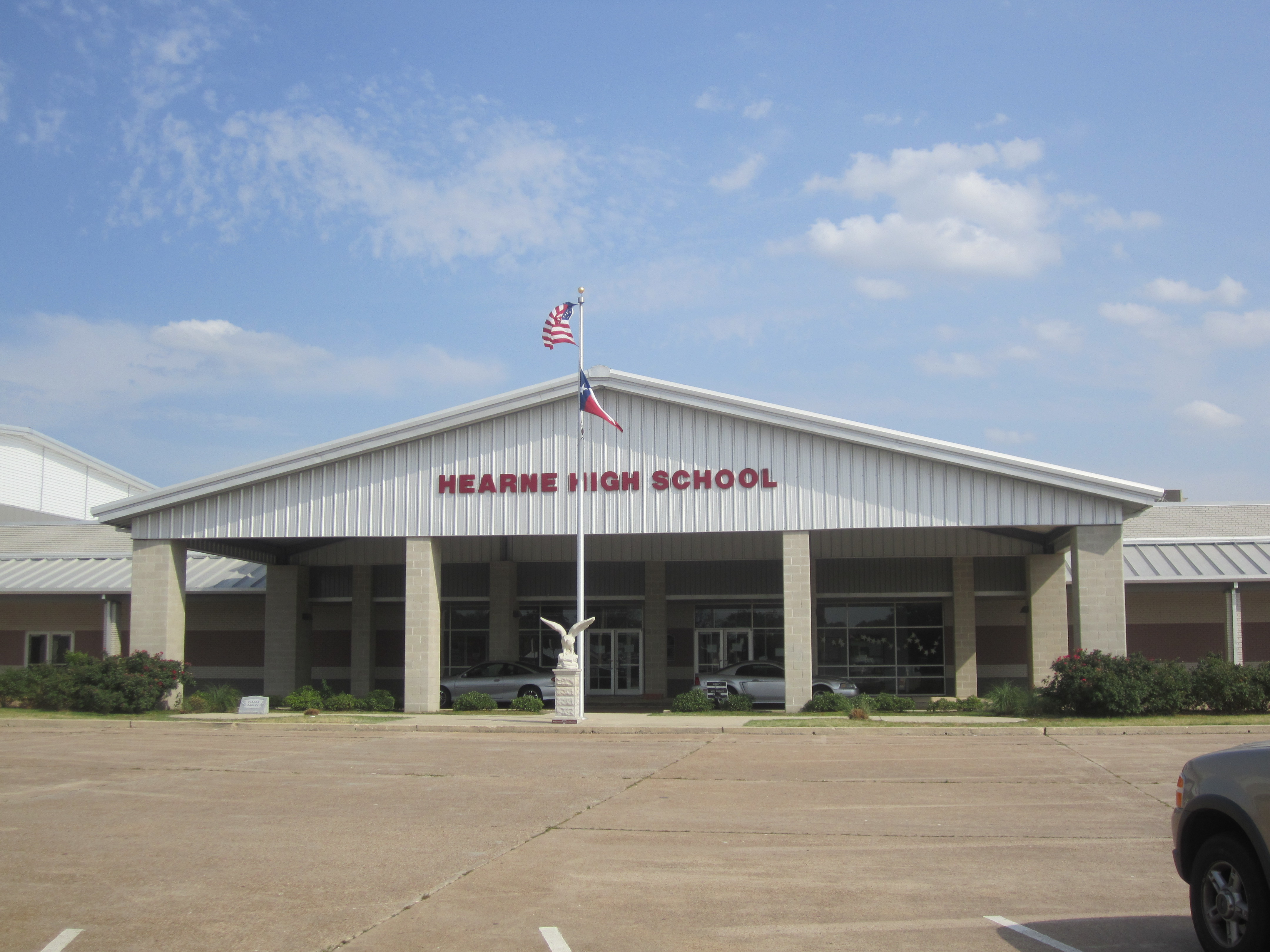 I took photo with Canon camera of Hearne, TX, High School, located in a former Wal-Mart building.